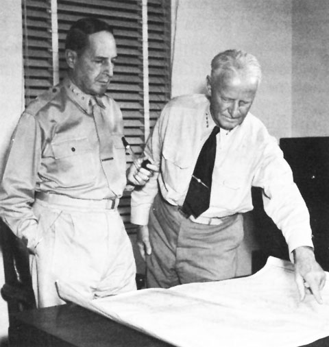 General Douglas MacArthur und Admiral Chester W. Nimitz